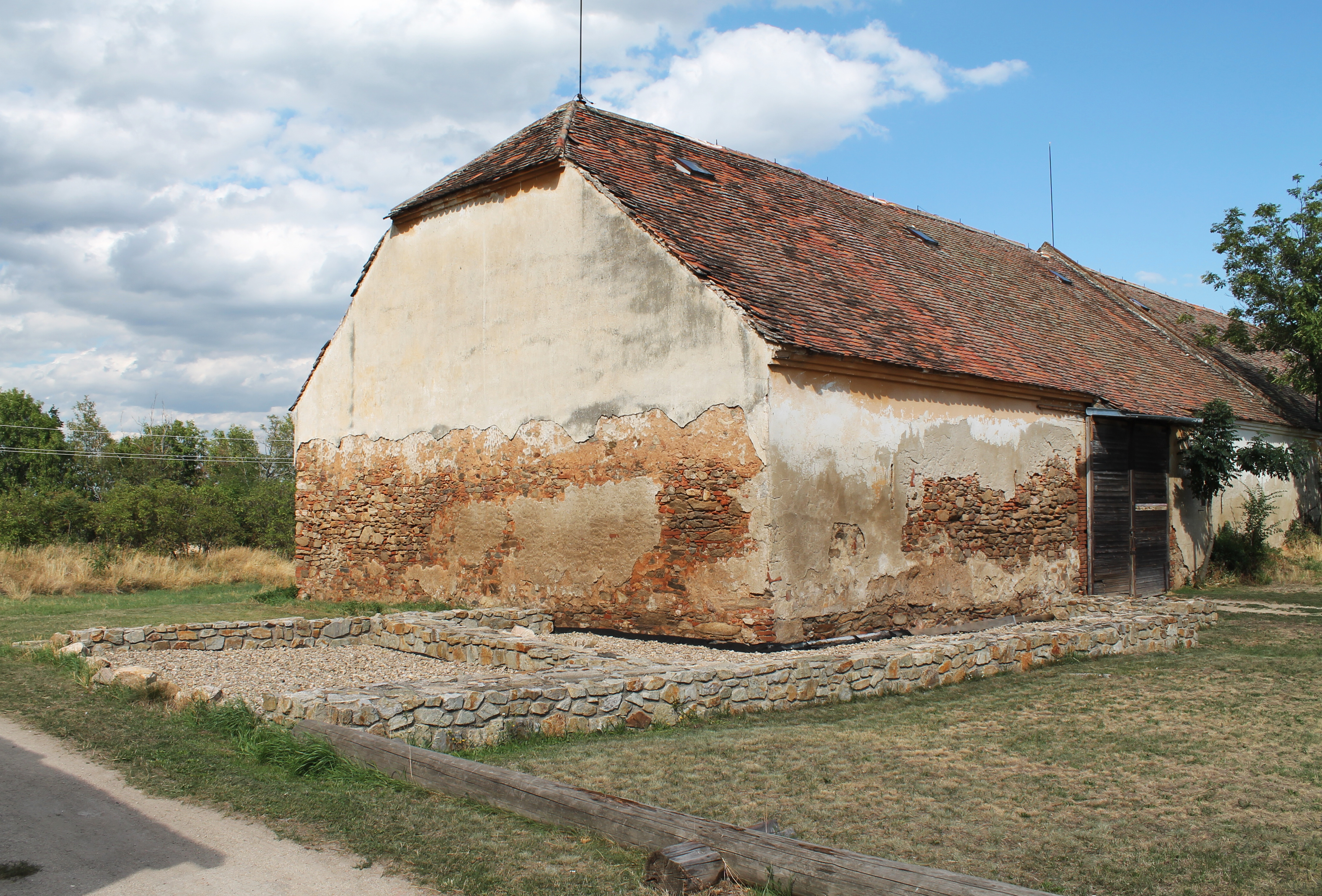 Monastery of Knights of the Cross with the Red Star, Hradiště, Znojmo, Znojmo District, Czech Republic